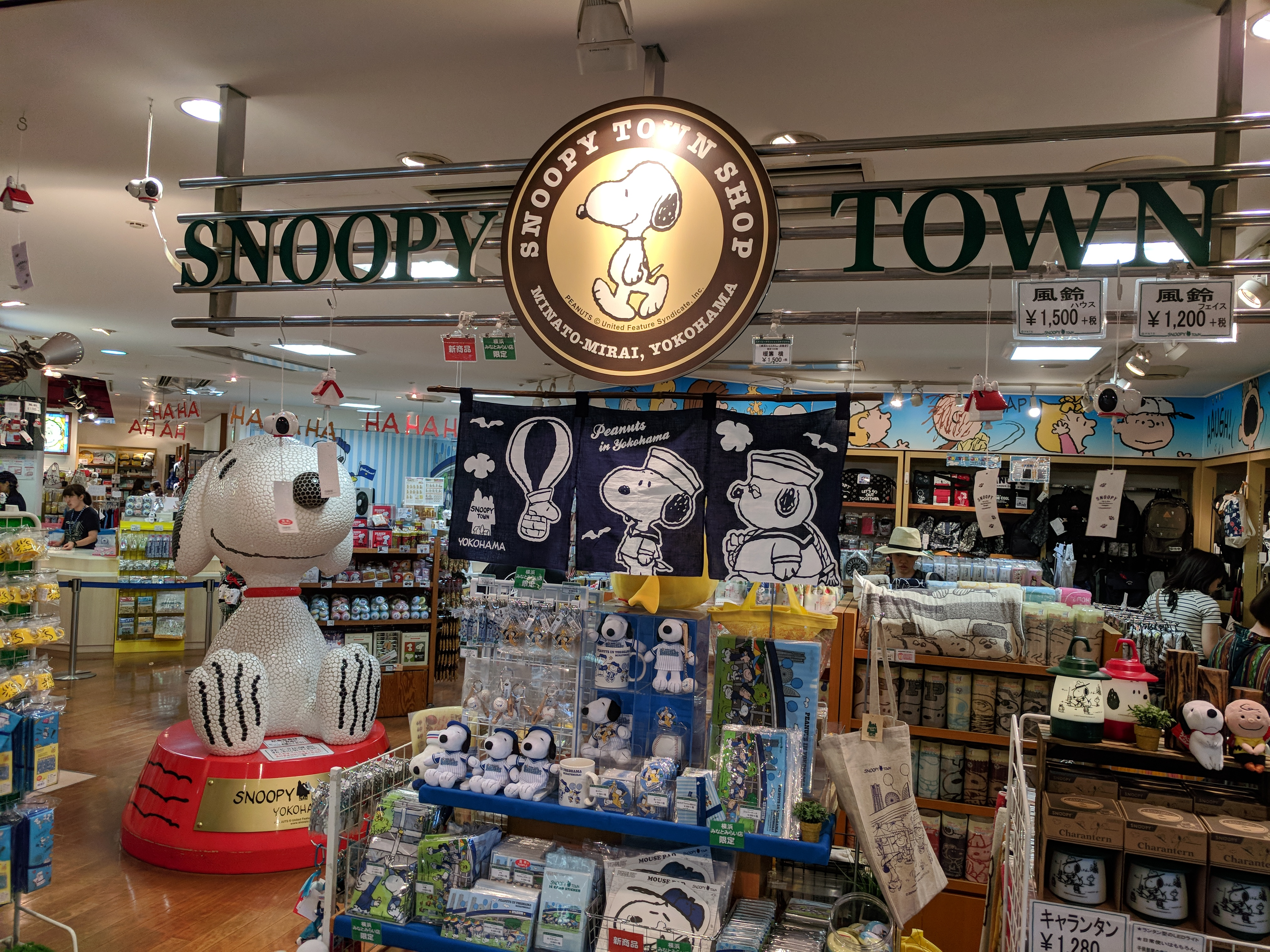 'Snoopy Town', a shop in Yokohama, Japan which sells Snoopy-related merchandise